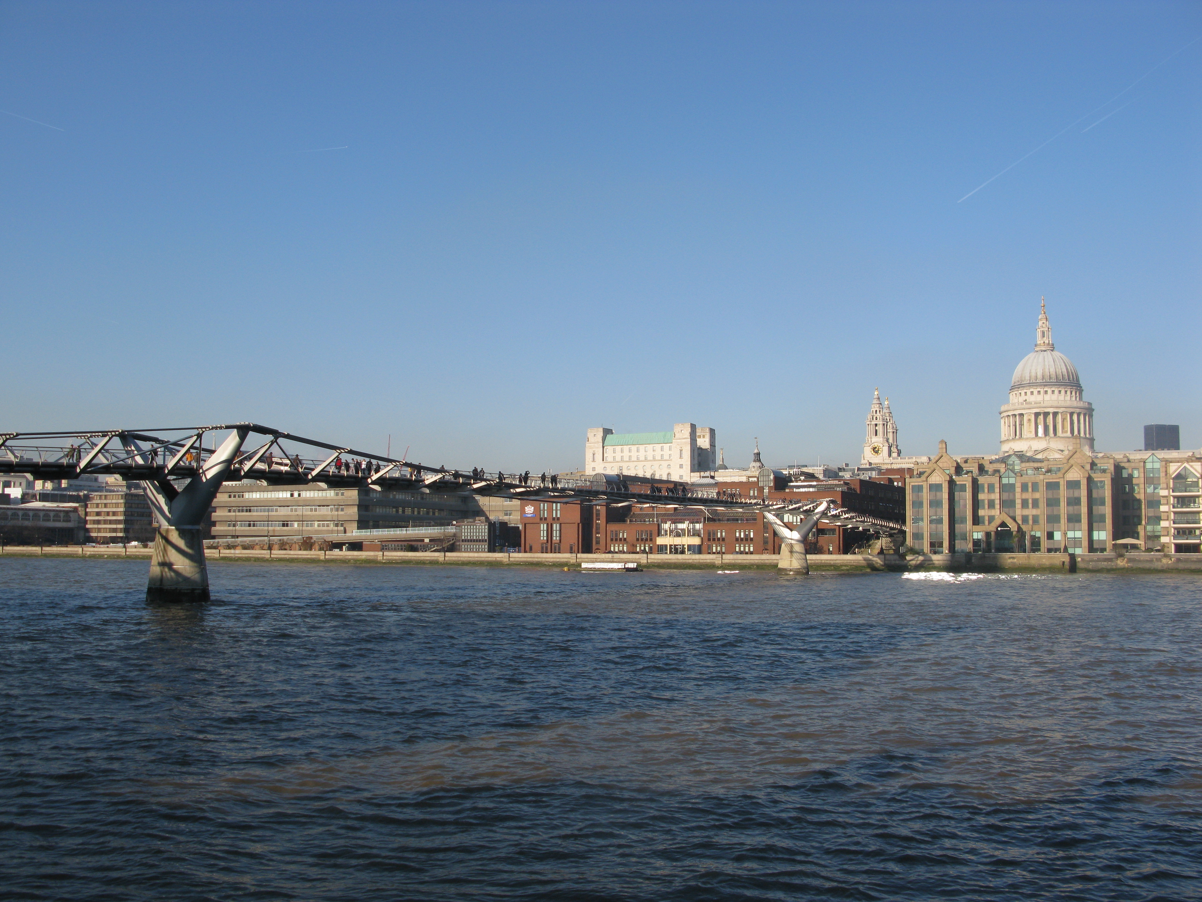 Millennium Bridge, London, Great Britain, with St. Paul's Cathedral on the right hand side.